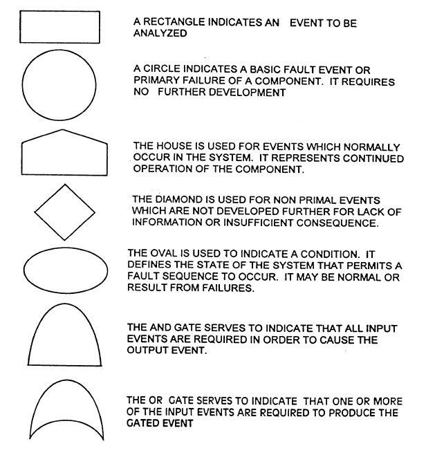 SFTA Graphical Representation Symbols Benefits Of Software Fault Tree Analysis (SFTA): Overall, the benefits of carrying out an SFTA are well worth the small investment that is made at either the design or code stage, or at both stages. SFTAs can provide the extra assurance required of safety-critical projects. When used in conjunction with the traditional functional verification techniques, the end product is a system with safer operational characteristics than prior to the application of the SFTA technique.